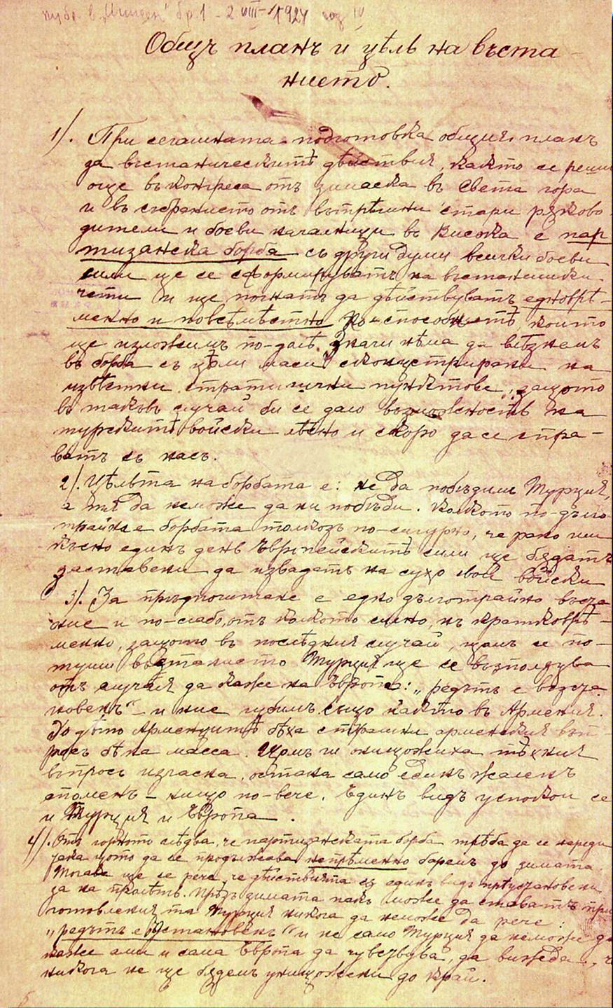 General plan of the Ilinden Uprising passed by the Smilevo Congress, for sustained long-term fighting against the Turkish authorities, and thereby force European powers to intervene in Macedonia.